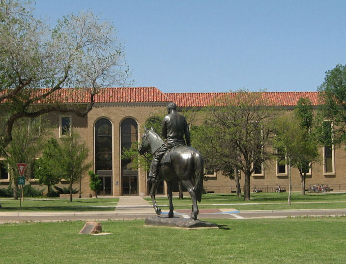 The Will Rogers and Soapsuds statue at Texas Tech University in Lubbock, Texas, United States.